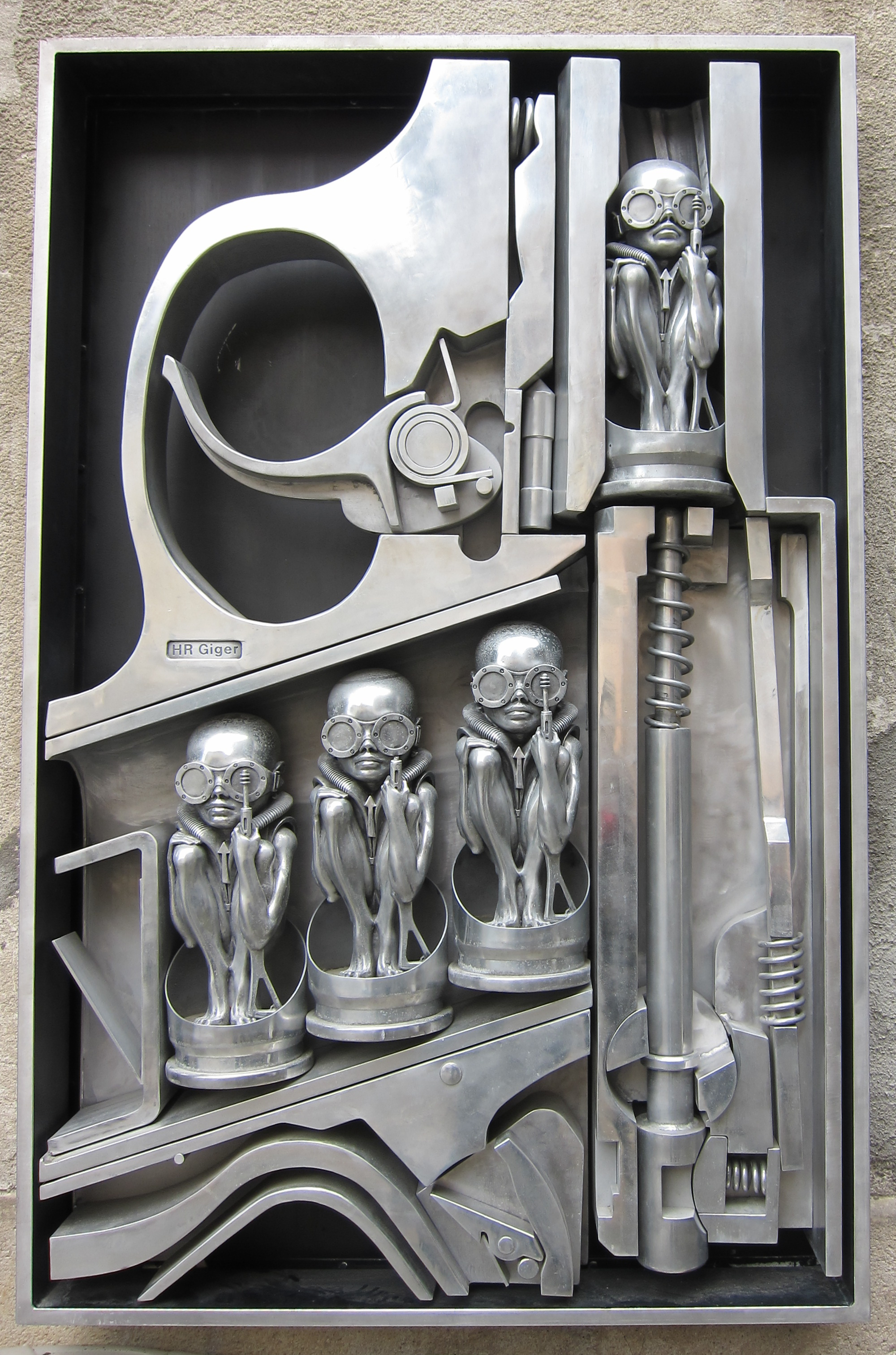 H. R. Gigers Birth Machine sculpture in Gruyères, Switzerland